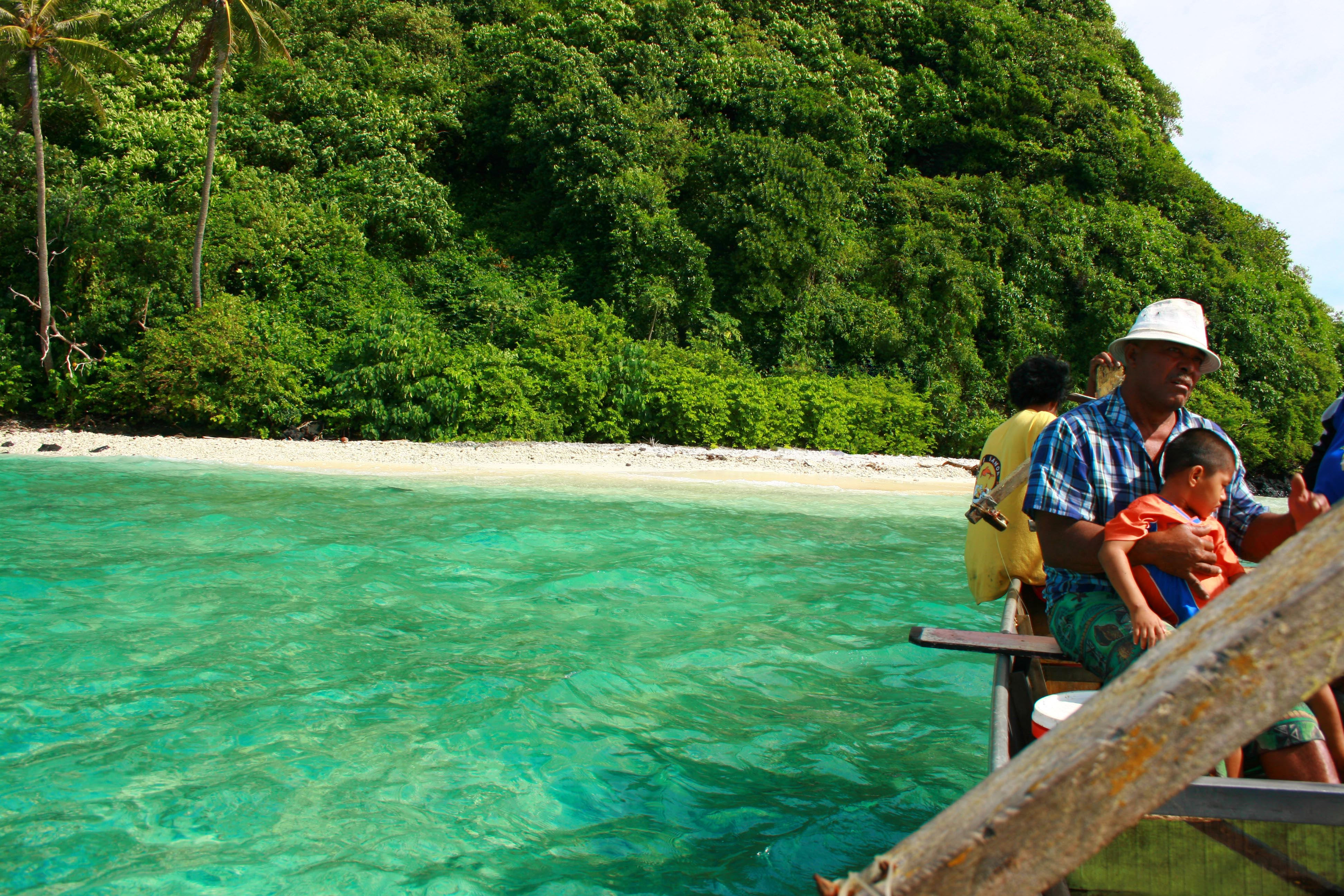 Boat arriving at Nu'ulopa island, Samoa